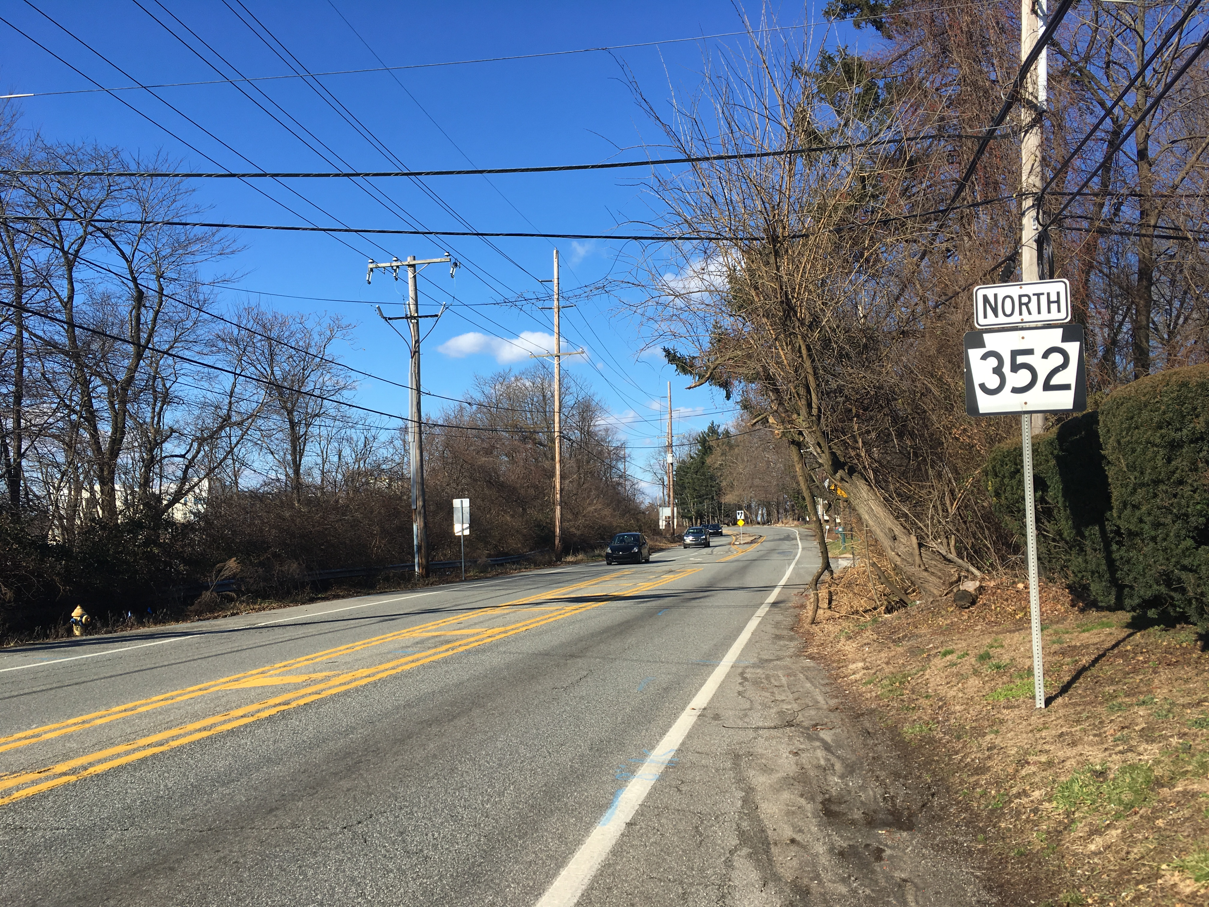 Northbound Pennsylvania Route 352 (Middletown Road) past the interchange with U.S. Route 1 (Baltimore Pike) in Middletown Township, Pennsylvania